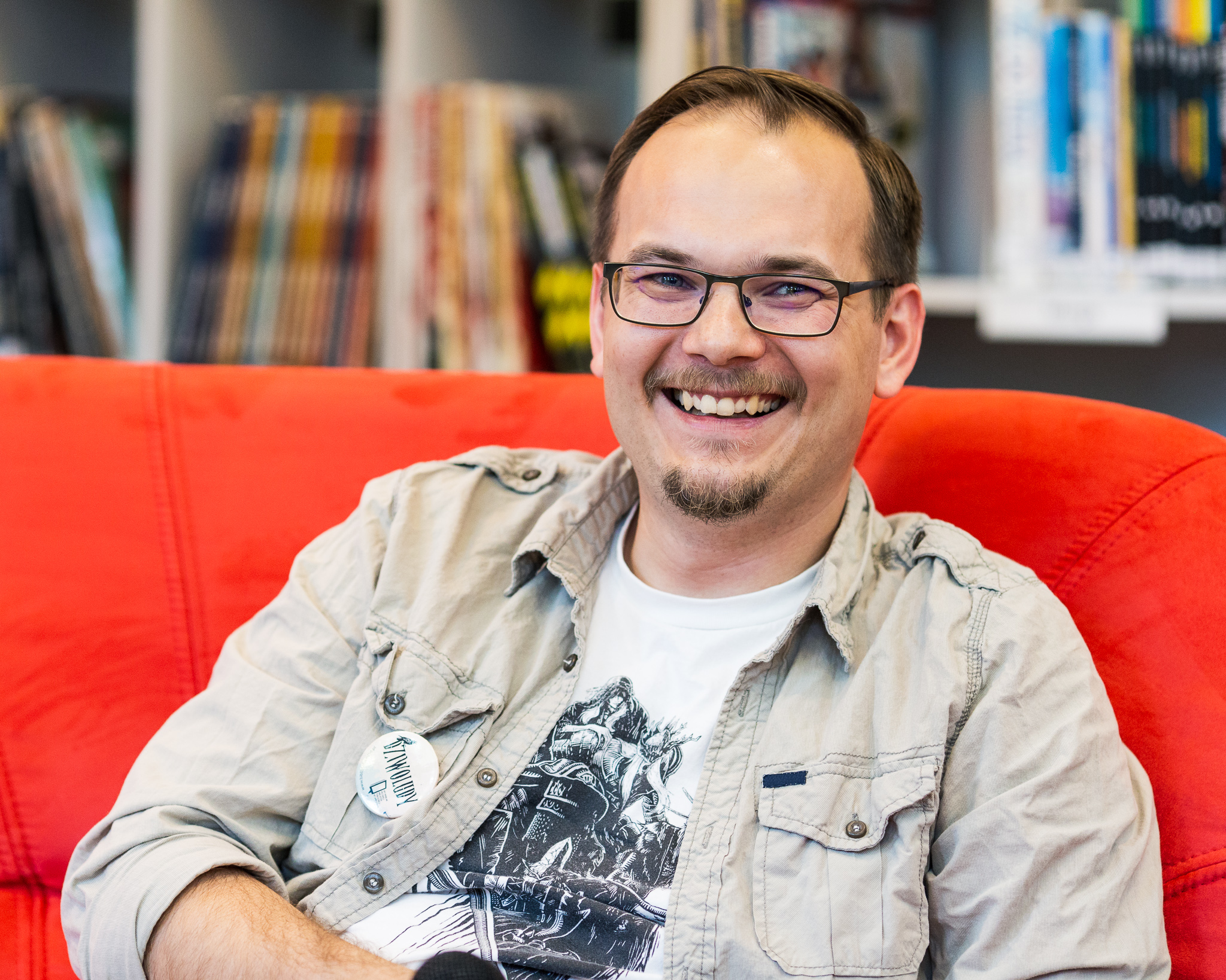 Krzysztof Piskorski, Polish writer, on author's meeting, in Wrocław, Poland